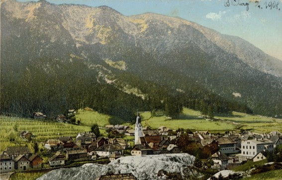 Bad Bleiberg, a miners town since thousand years at least near Villach / Carinthia / Austria / EU. View towards south. In the foreground white spoil piles from the lead and cornet mine. Old Picture postcard from 1908.